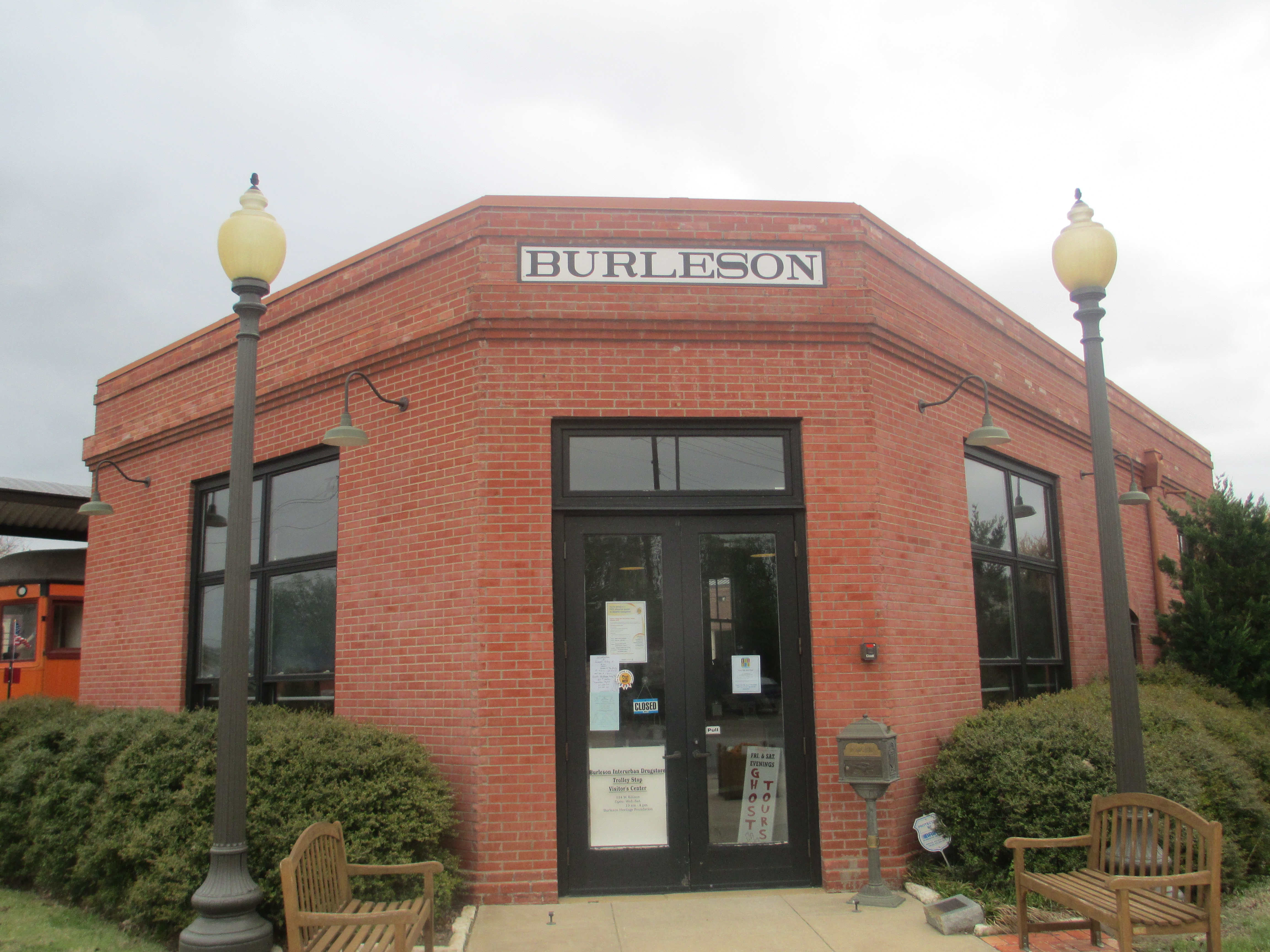 I took photo of restored Burleson, TX, Train Station in the downtown, with Canon camera, April 7, 2013.Billy Hathorn (talk) 20:27, 9 April 2013 (UTC)